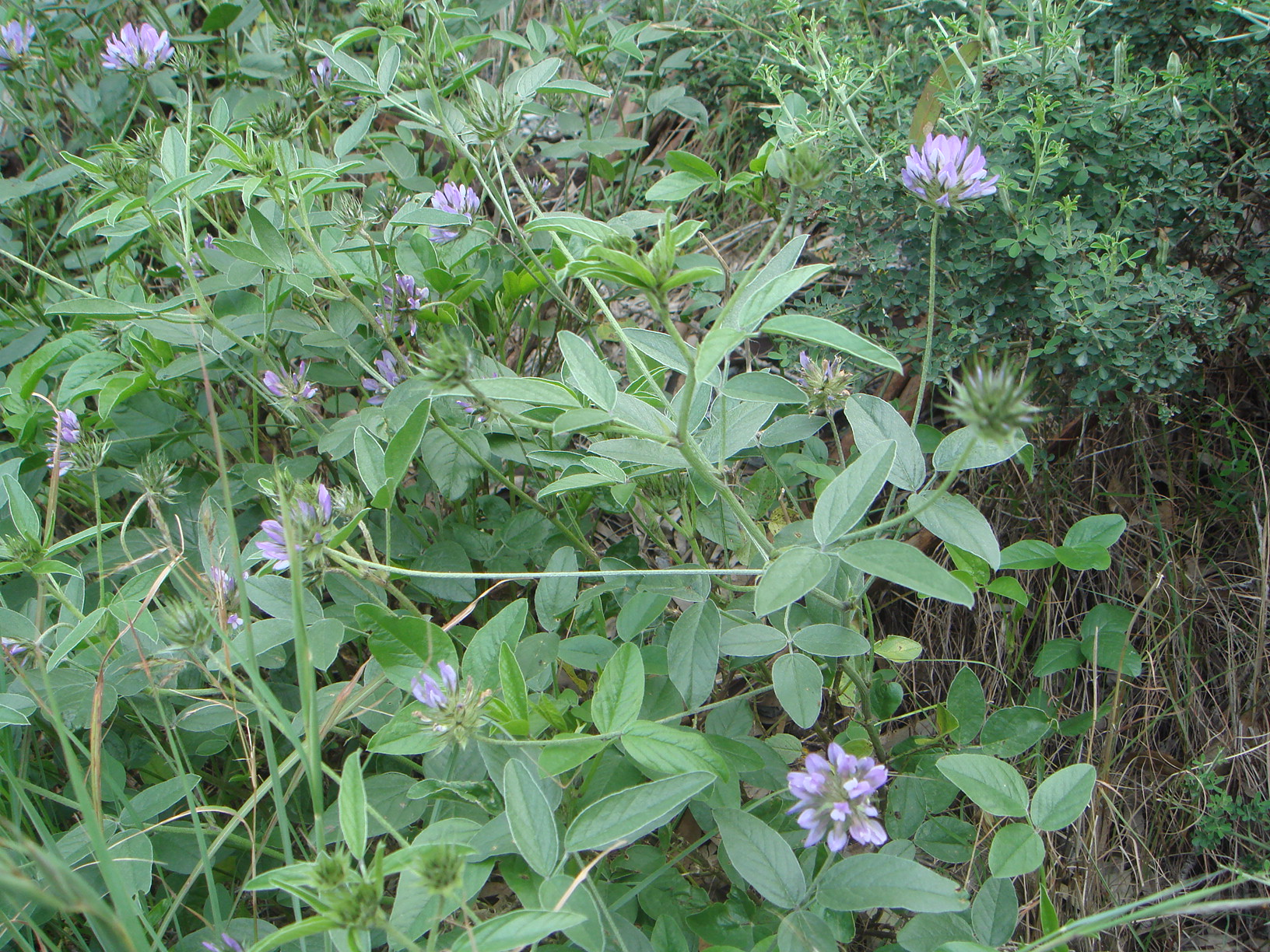 Pitch trefoil, Spain, Ceuta.